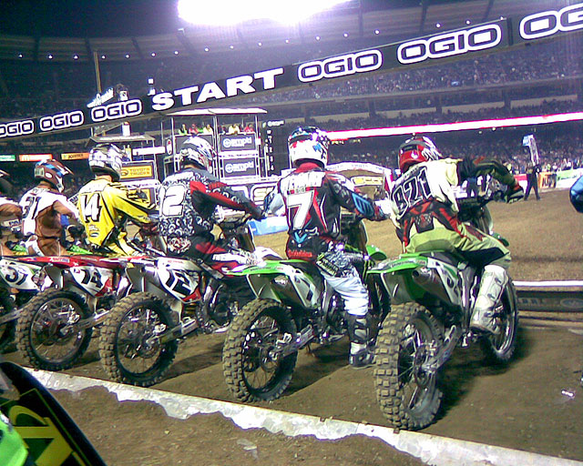 Manu Rivas #921 - AMA Supercross Series 2007